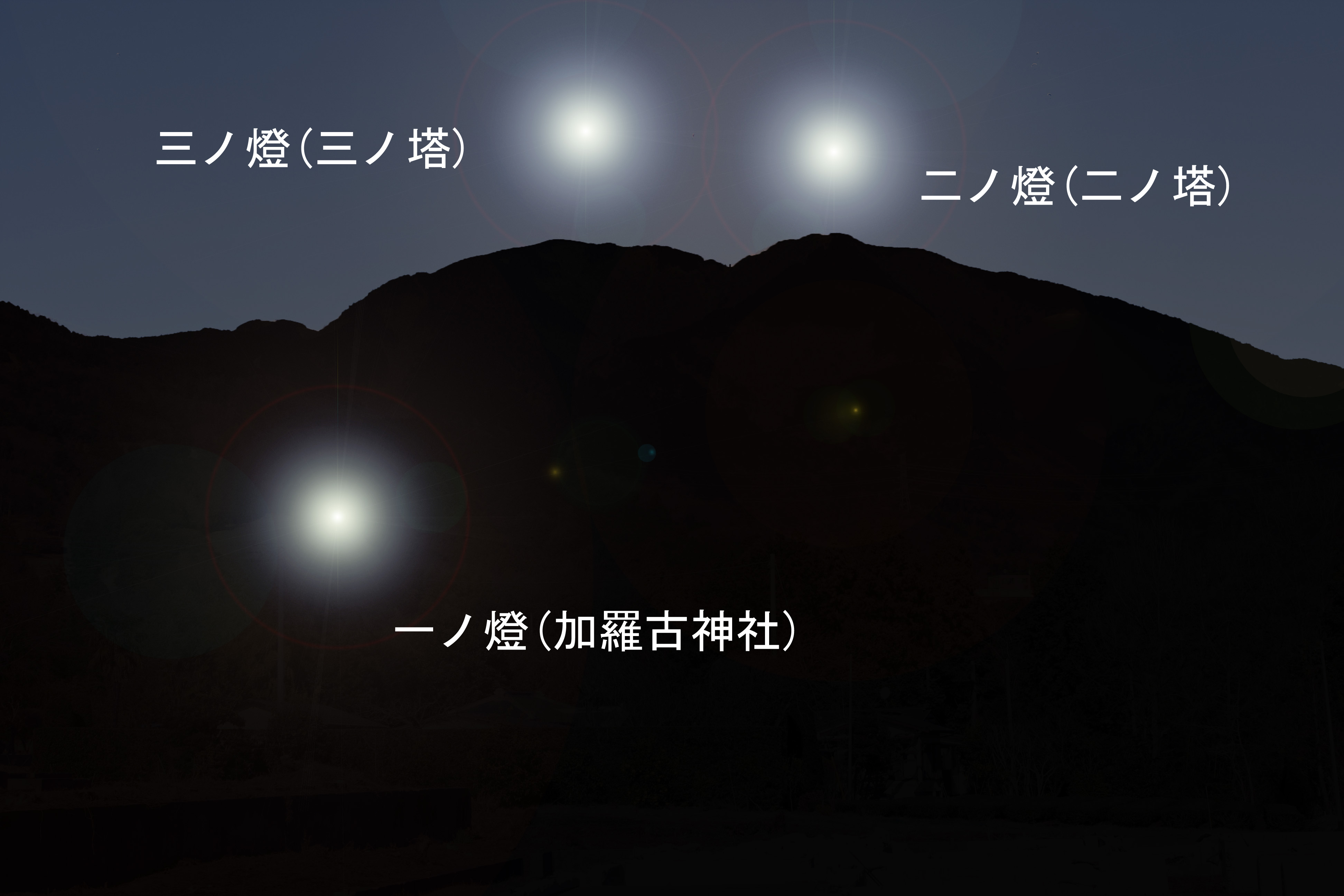 Image figure of tradition of Mt.Sannoto and Mt.Ninoto, Tanzawa Mountains, Kanagawa Pref., Japan.